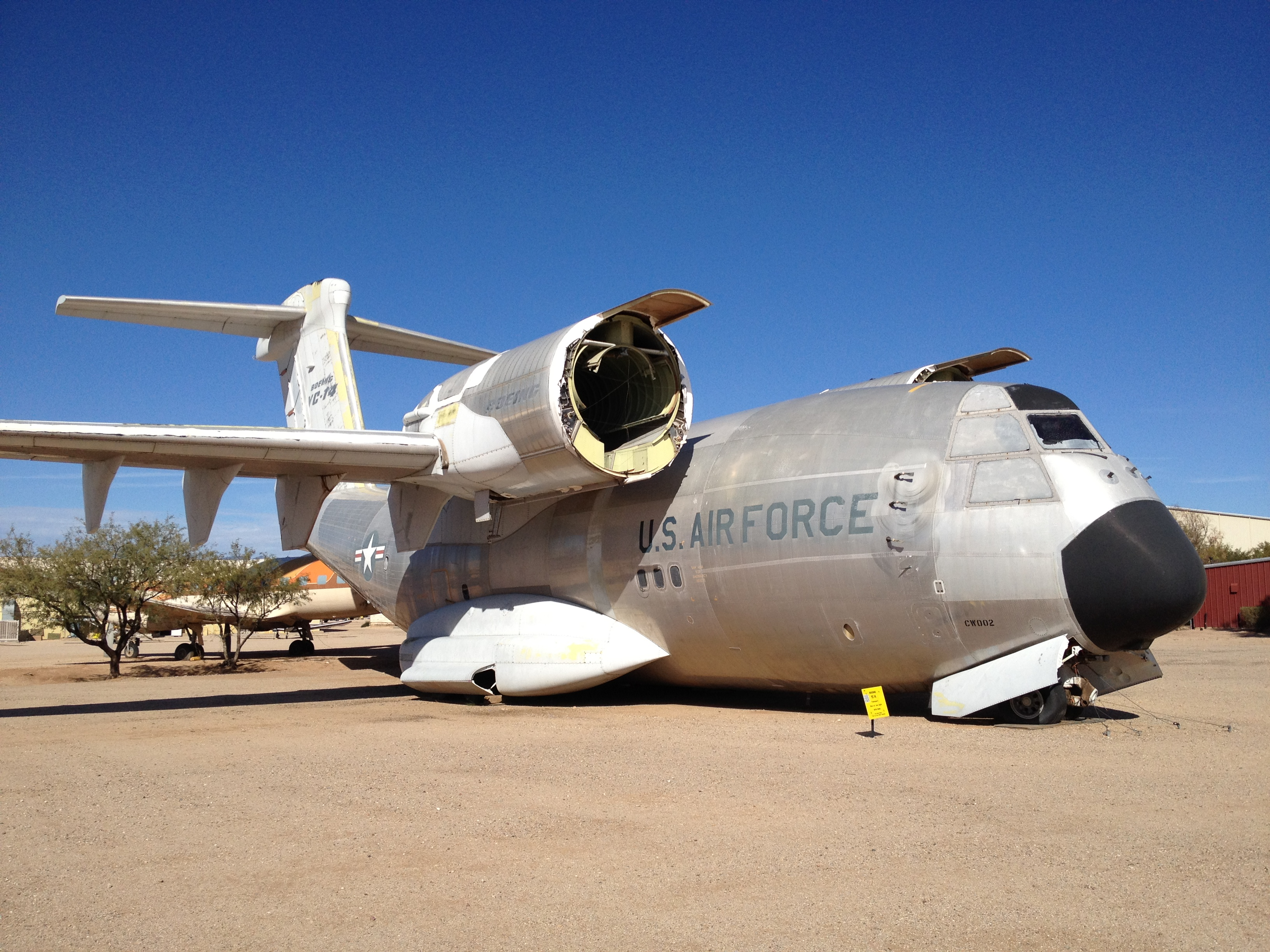 One of the two Boeing YC 14's ever built. Now at Pima Air Museum.